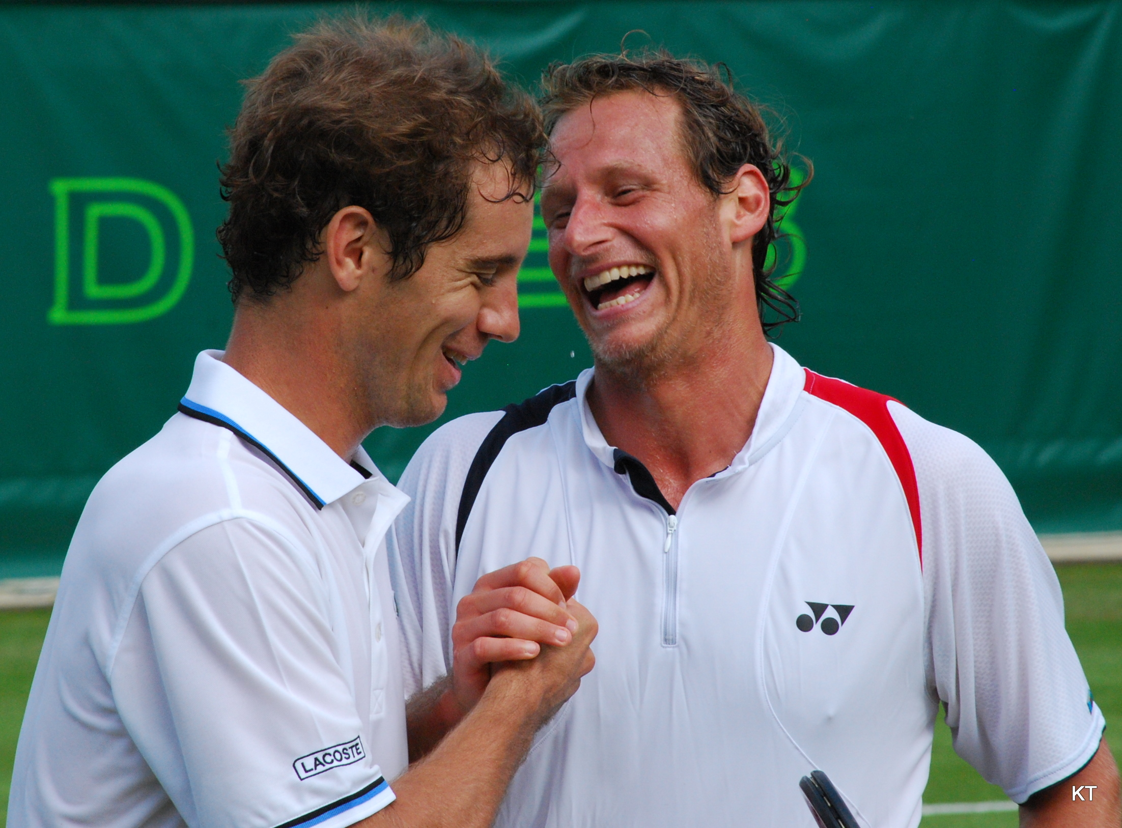 The Boodles, Stoke Park, 2011.